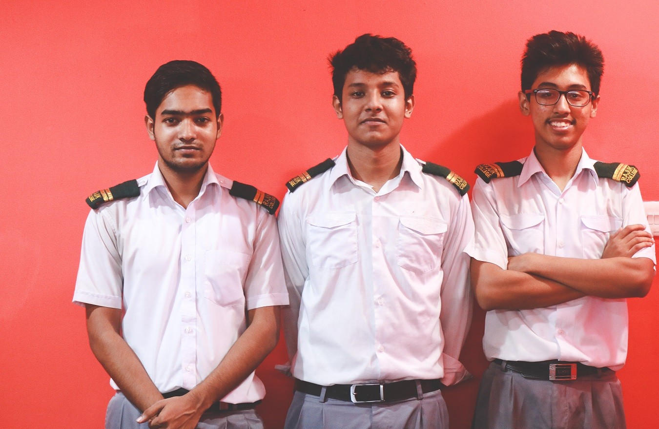 Students of class 12 in their college uniform.